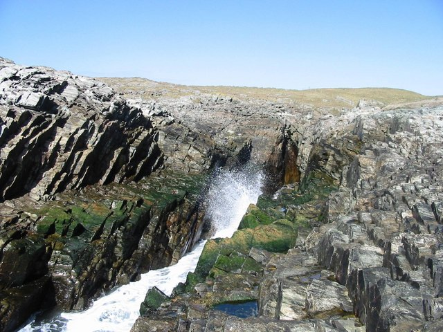 Rocks near Claddach bay When a wave came it would send water along this narrow channel which would make a loud slapping noise when it reached the end, a rainbow forming in the spray which I never managed to capture properly!